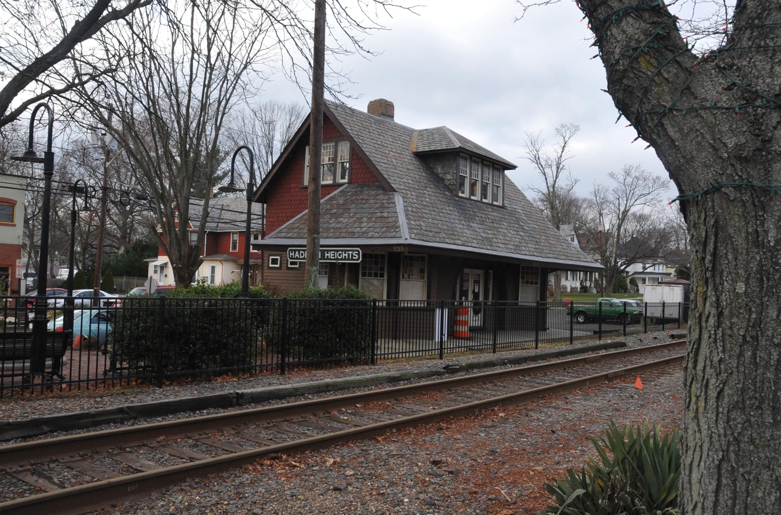 THE STATION IS THE CENTERPIECE OF THE DISTRICT AND LIES DIRECTLY IN THE CENTER. LATE 19TH CENTURY. THE RAILROAD BROUGHT A BOOM TO HADDON HEIGHTS AND THE SURROUNDING AREA